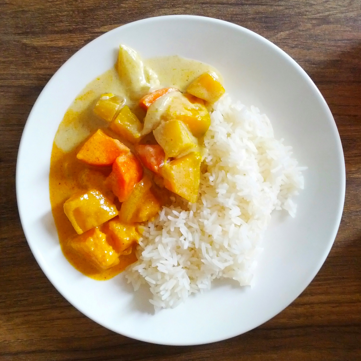 Homemade Thai yellow curry with jasmine rice